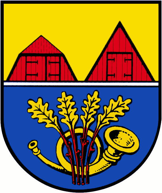 Coat of arms of the Town Groß Oesingen (Gifhorn)